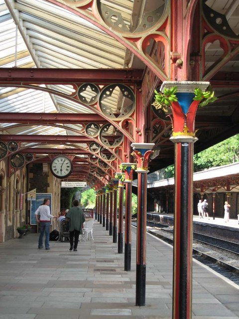 Great Malvern train station funded by Lady Foley This train station funded for by Lady Foley. A very pretty station with lovely well preserved historical features that have to be seen to be believed.